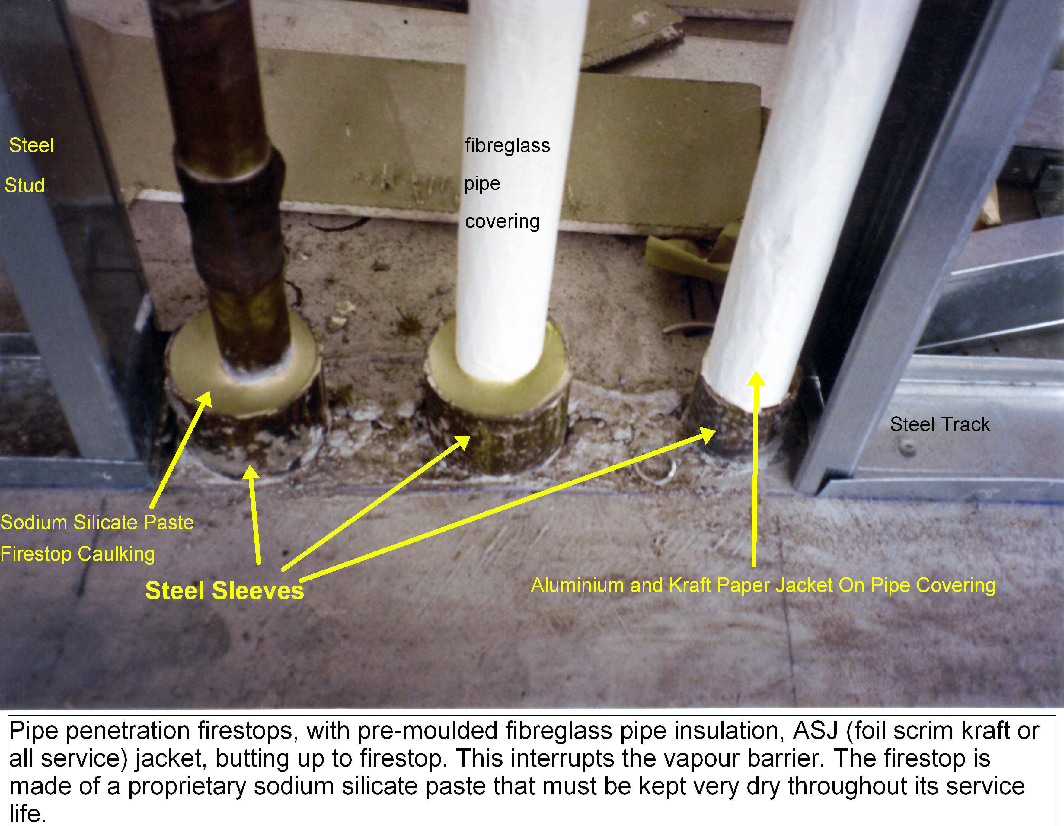 Sodium silicate paste firestop caulking used in metallic pipe penetration. Two of the pipes are covered in fibreglass pipe insulation, which butts up to the firestop. This interrupts the vapour barrier (which is the exterior ASJ jacket surrounding the pre-moulded pipe covering). In the event of condensate build-up, the intumescent, which is vulnerable to moisture, is then in direct contact with condensate water, which can impair the function of the firestop caulking. When pipe covering runs through the firestop and the firestop is designed for this configuration, the vapour barrier and thermal insulation remain intact without the possibility of condensate buildup and thermal bridges.